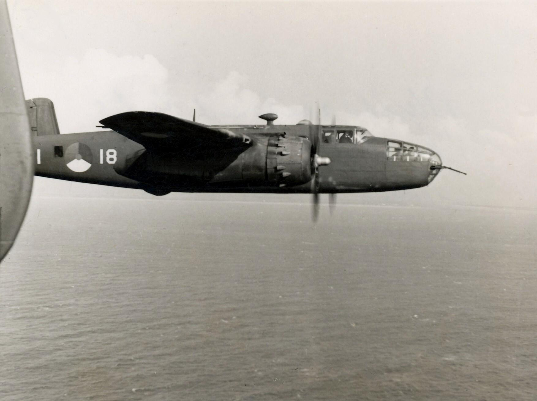 B-25-25D-20-NC Mitchell build 1943 USAAF Serial 41-30794 . c/n 87-8959 used as FR-194 and last as A-18 seen here on 2-6-1948 on flight to meet the ariving aircraft carrier Karel Doorman. this b-25D was taken out of service in 1951.